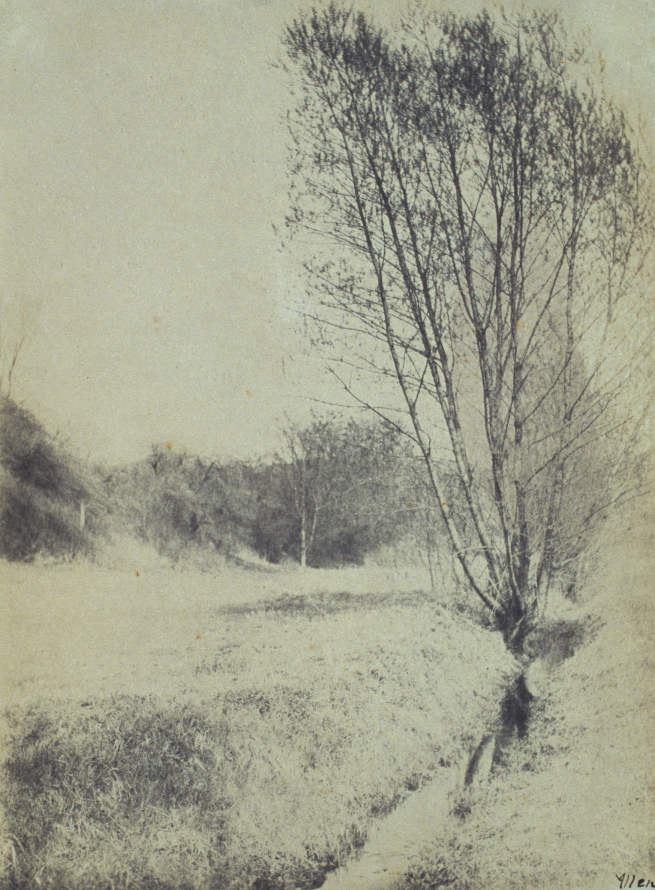 Title: Willows / Allen. Abstract/medium: 1 photographic print : platinum ; 21 x 15 cm. on Rembrandt mount, 31 x 26 cm.